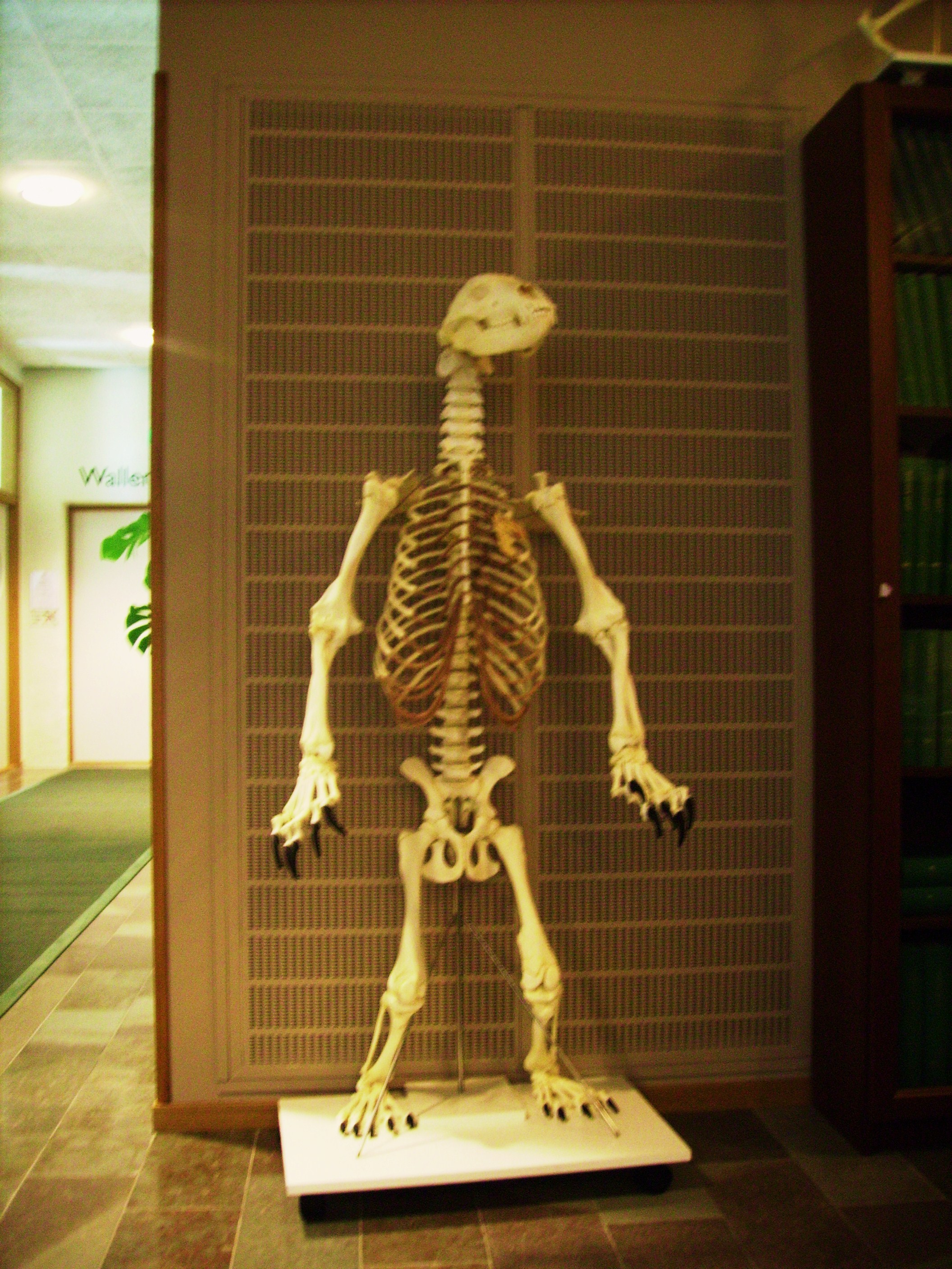 Picture of skeleton of a bear in Öster Malma in Södermanland